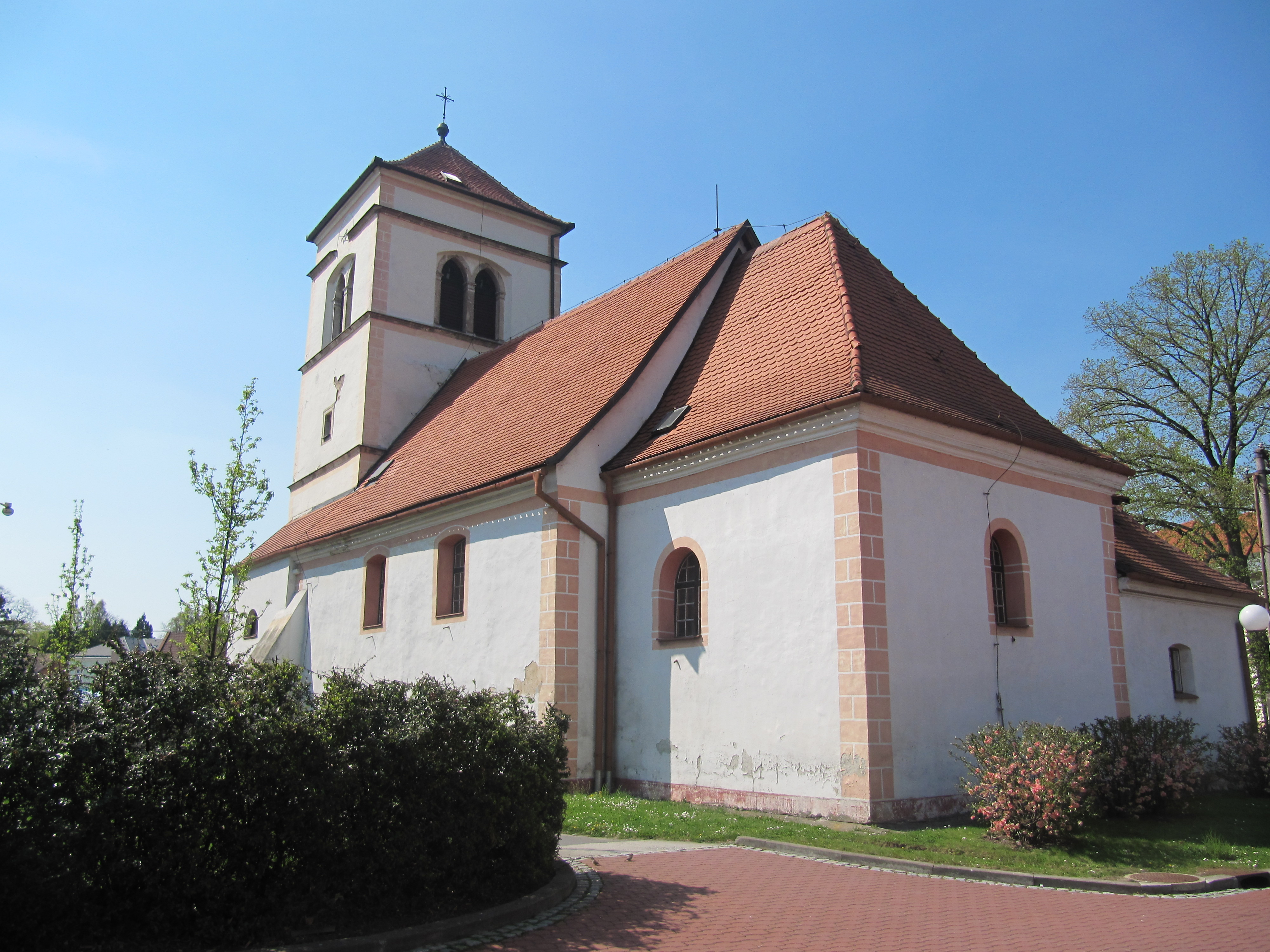 Tlumačov in Zlín District, Czech Republic. Church of St. Martin.